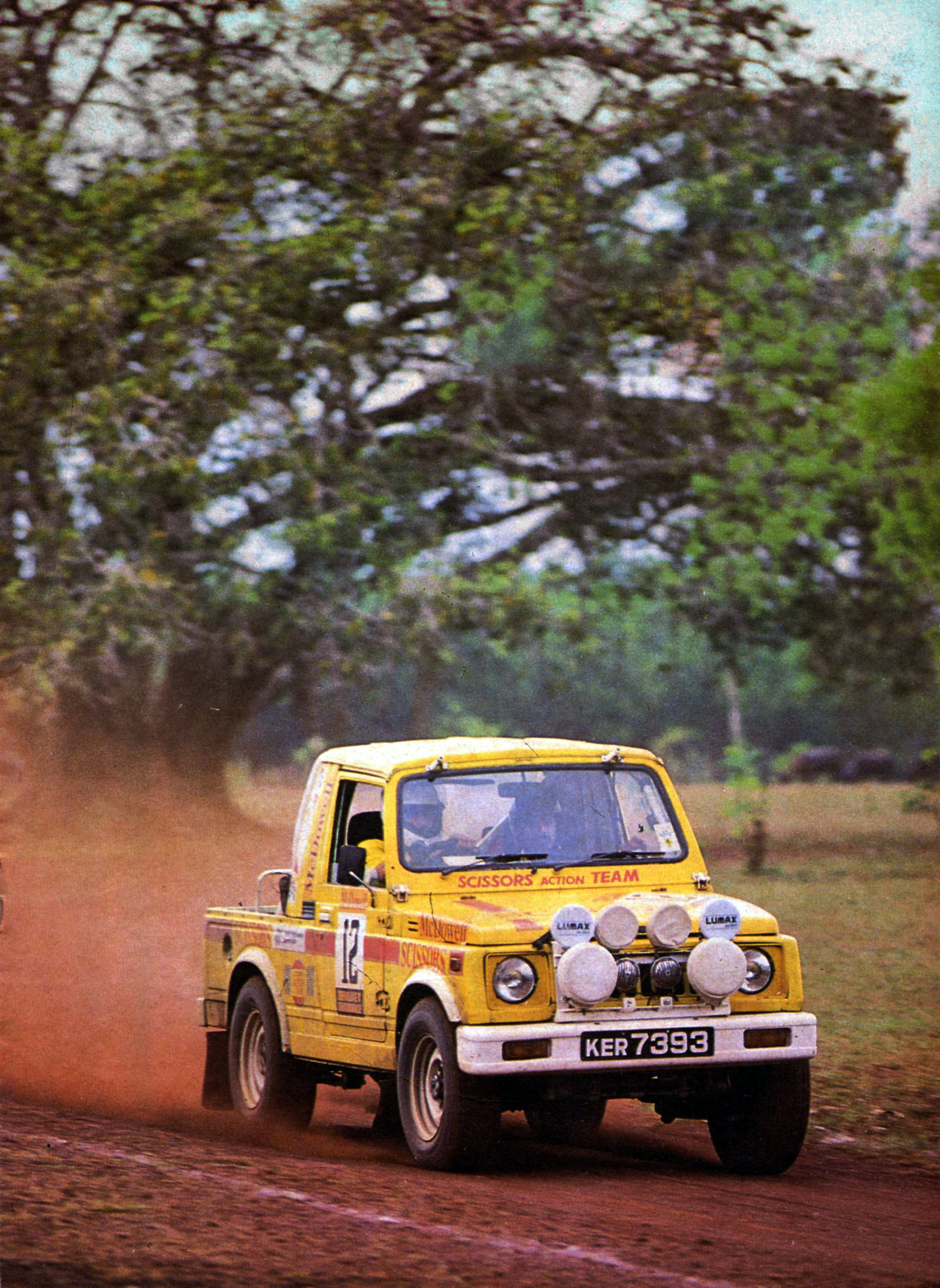 L. Gopalakrishnan, (a.k.a) G.V.L Gopal from Coimbatore in a Scissors Action Rally Team's Group A(II) IND Maruti Gypsy in 1991 Rally D'Endurance ina Special Stage near Tumkur.